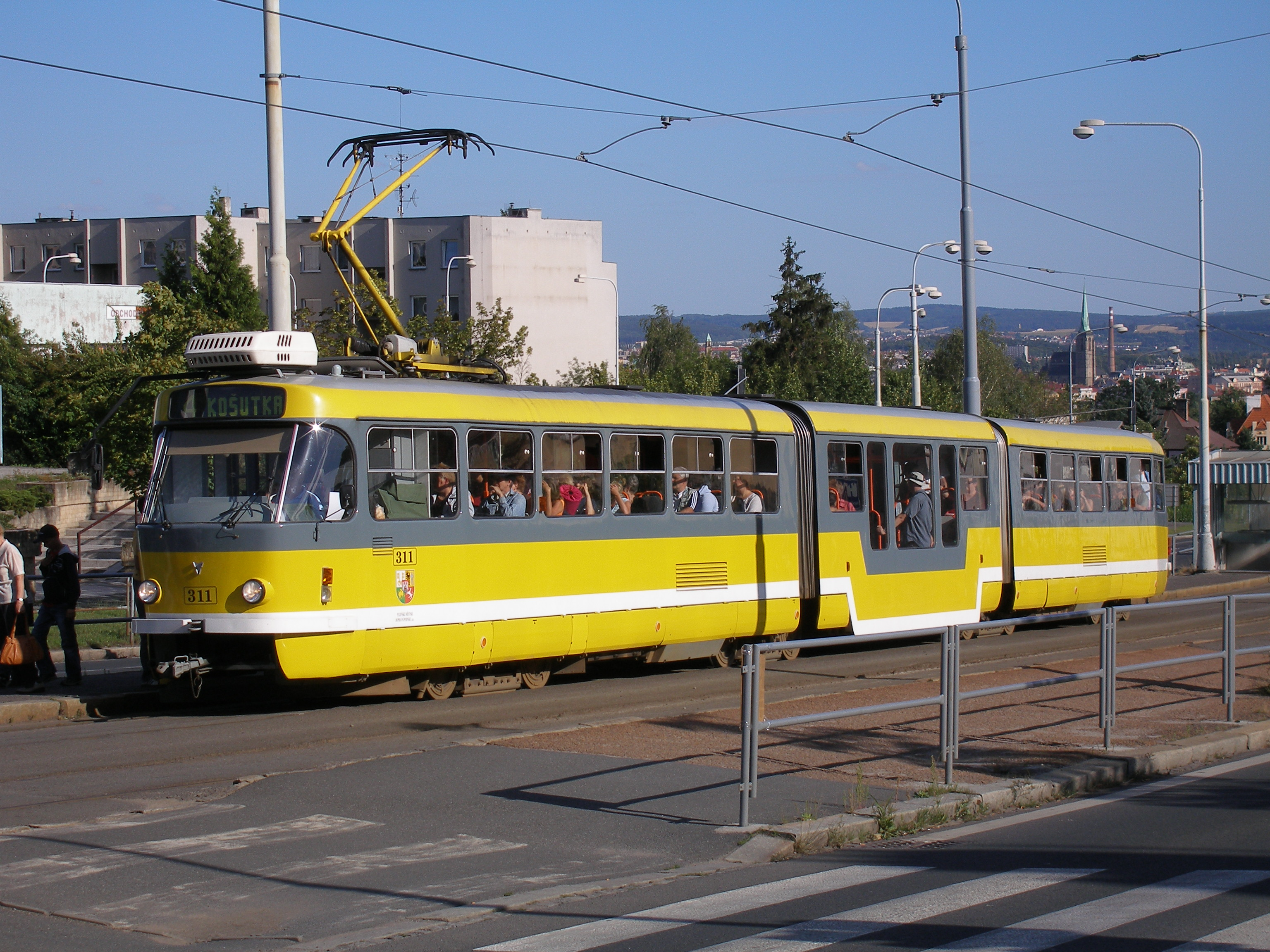 Tram K3R-NT in Plzeň, Czech Republic. Tram stop "U Družby", Line 4.